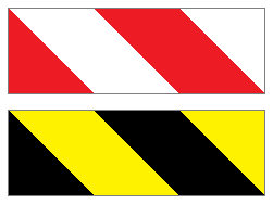 A representation of the description of 'signs for obstacles and dangerous locations' in the "Health and Safety (Safety Signs and Signals) Regulations 1996" (UK Legislation) in both the red and white and the yellow and black colour schemes